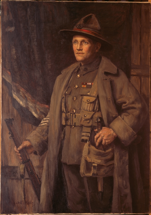 Henry James Nicholas VC MM posthumous by Annie Elixabeth Kelly - maybe 1919